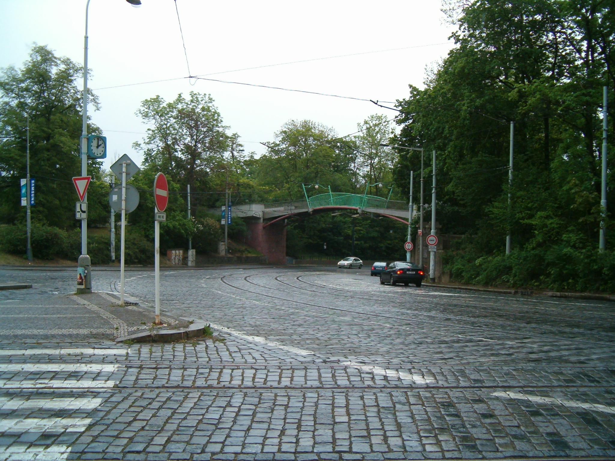 Prague streets Chotkova and Badeniho crossing